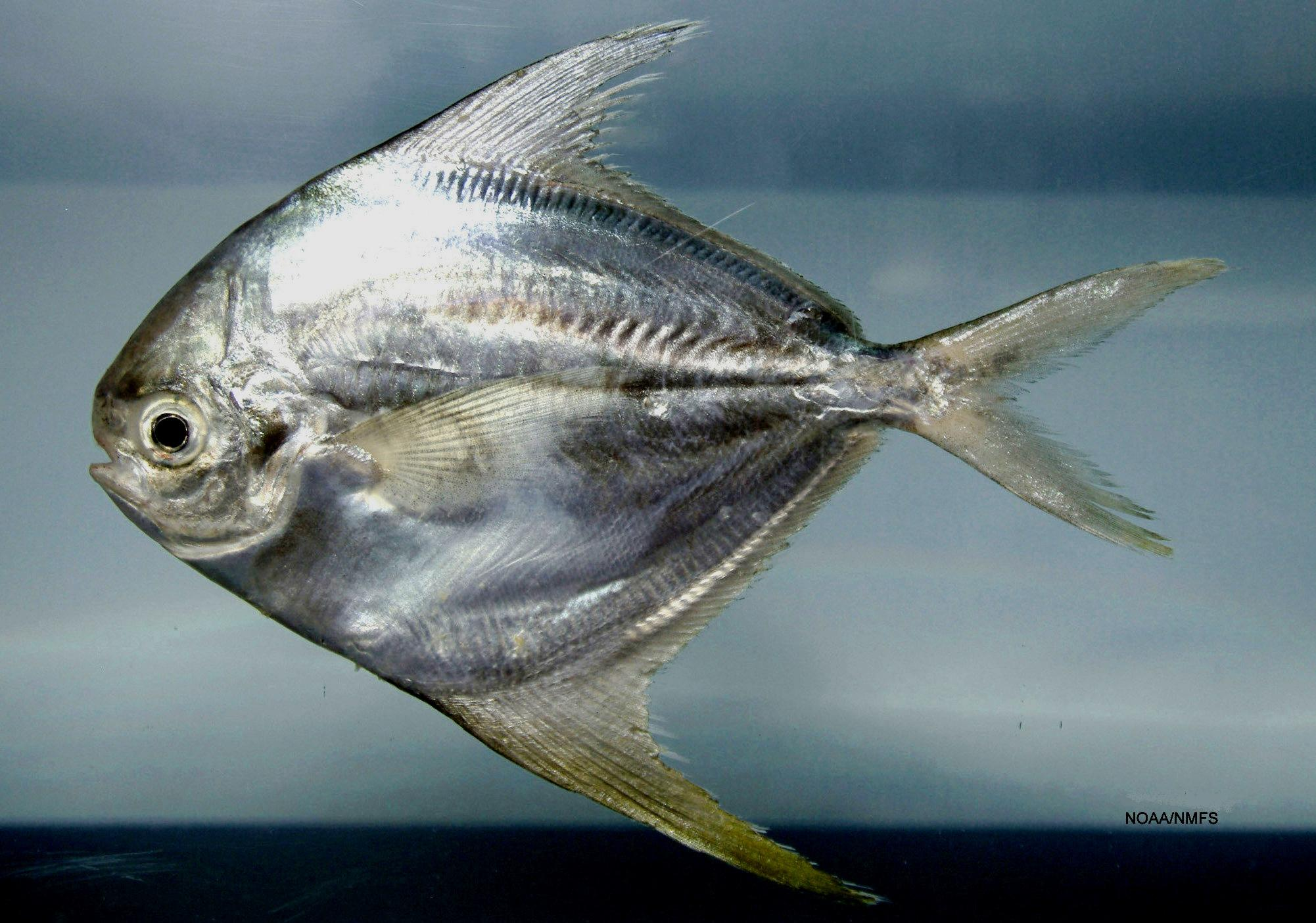 Peprilus paru from the Gulf of Mexico